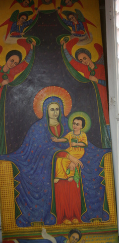 Old photo from Entoto Museum in Addis Ababa